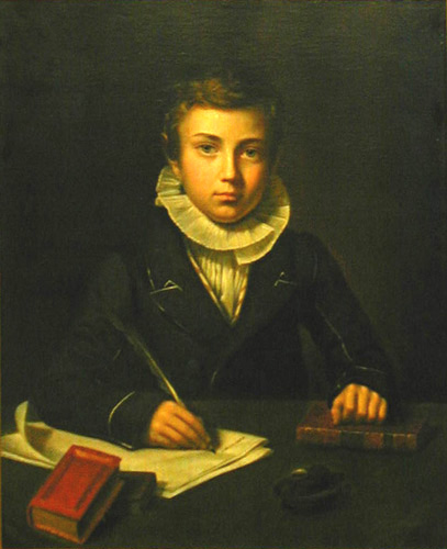 Portrait of Cyprien Tanguay (1819-1902), 1832, oil on canvas, 73 x 59,9 cm, Québec, Musée de la civilisation, Séminaire de Québec repository, donation of Mgr Cyprien Tanguay, 1991.74.